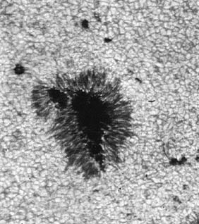 Sunspot photography made by Stratoscope I